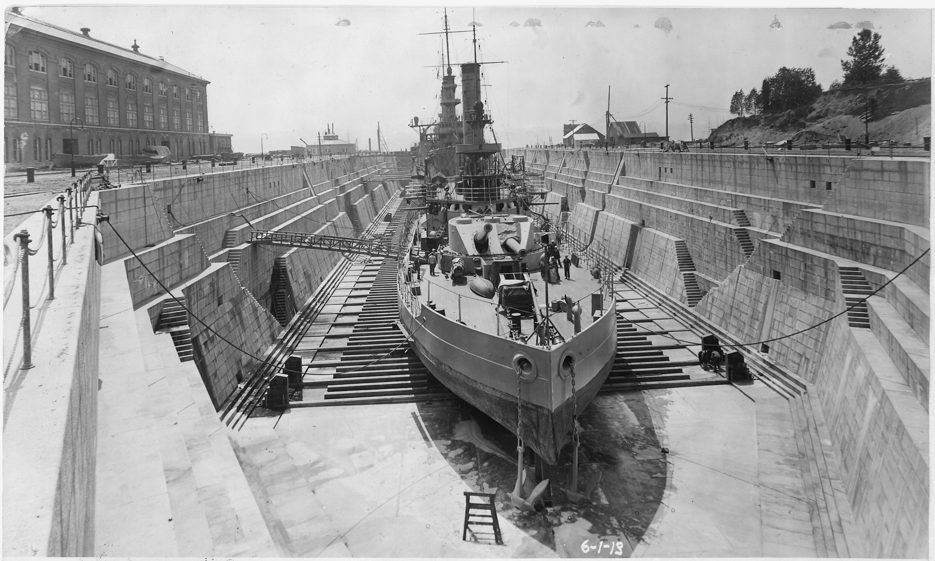 General notes: The monitor USS Cheyenne (BM-10, ex Wyoming) entered the Puget Sound Navy Yard early in February 1913, and was fitted out as a submarine tender over the ensuing months.